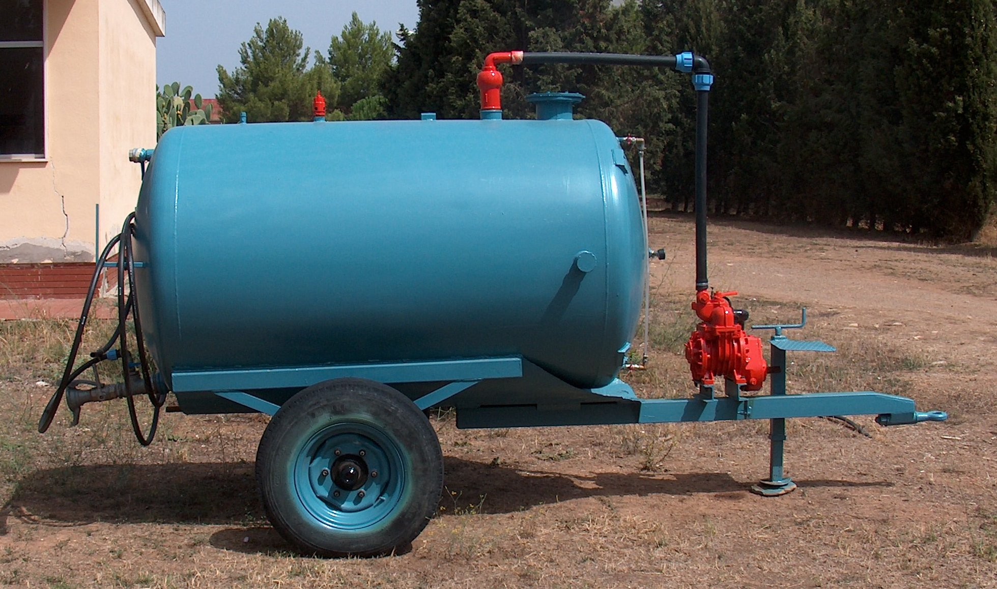 Liquid manure spreader – Professional Institute of Agriculture and Environment "Cettolini" of Cagliari (Sardinia, Italy) – Associated School of Villacidro (Sardinia, Italy)